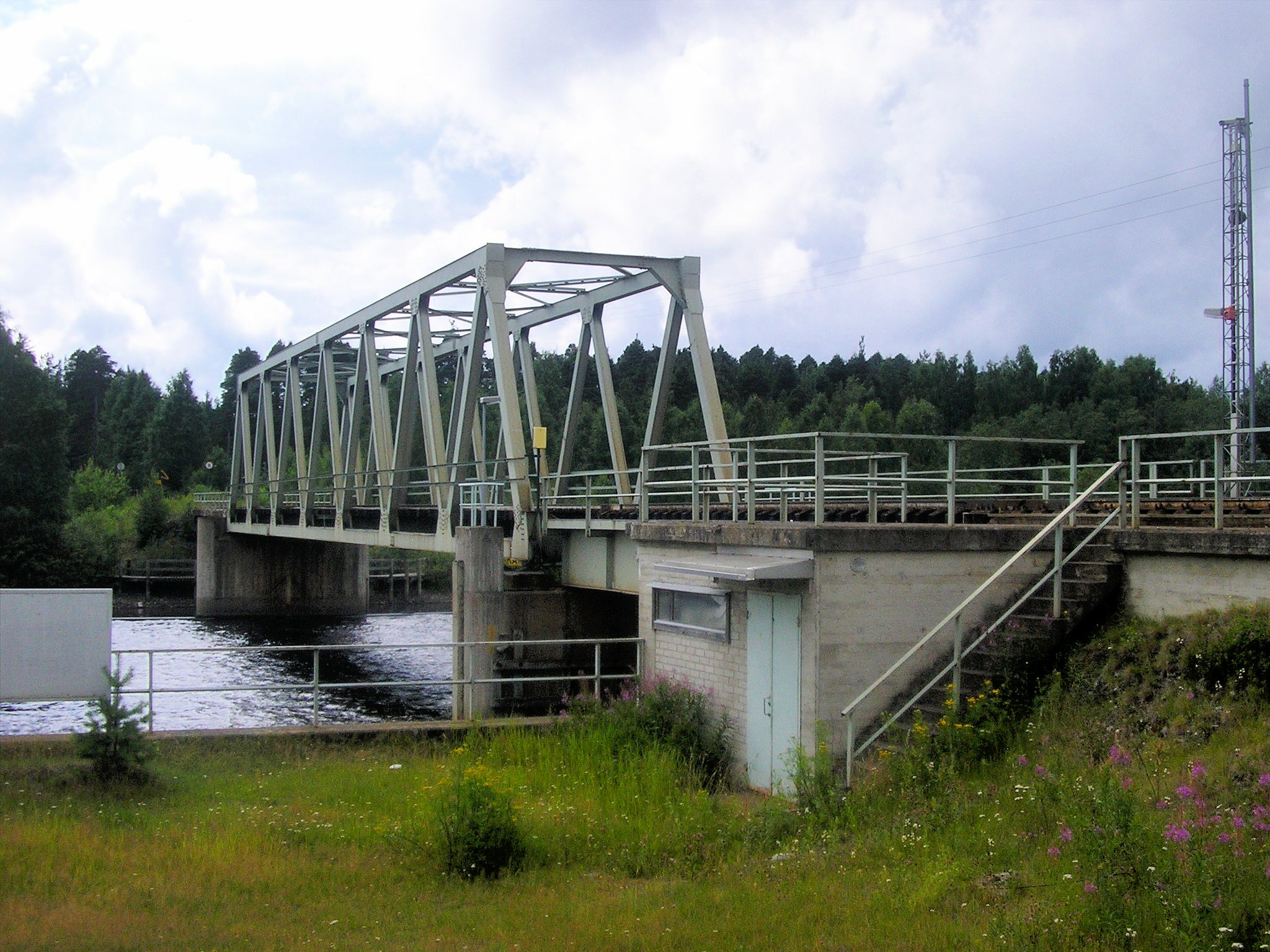 Uimasalmi railway bridge carrying Joensuu–Kontiomäki railway in Finland